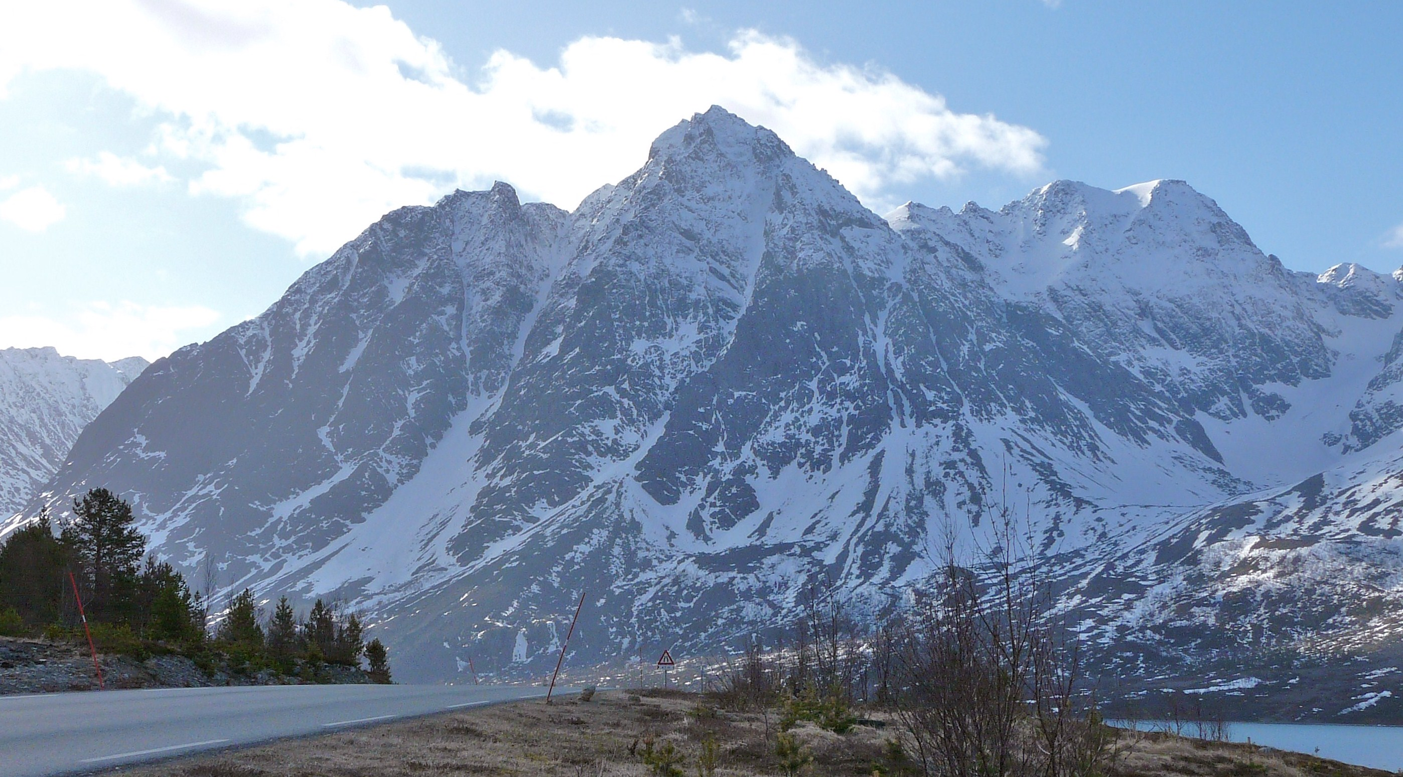 Forholtfjellet as seen from the northwest from the Riksvei 91 road which travels along the other side of the Kjosen fjord. Forholttinden (1,469 m, center) is the highest of these summits. The picture has been taken in 2009 May.